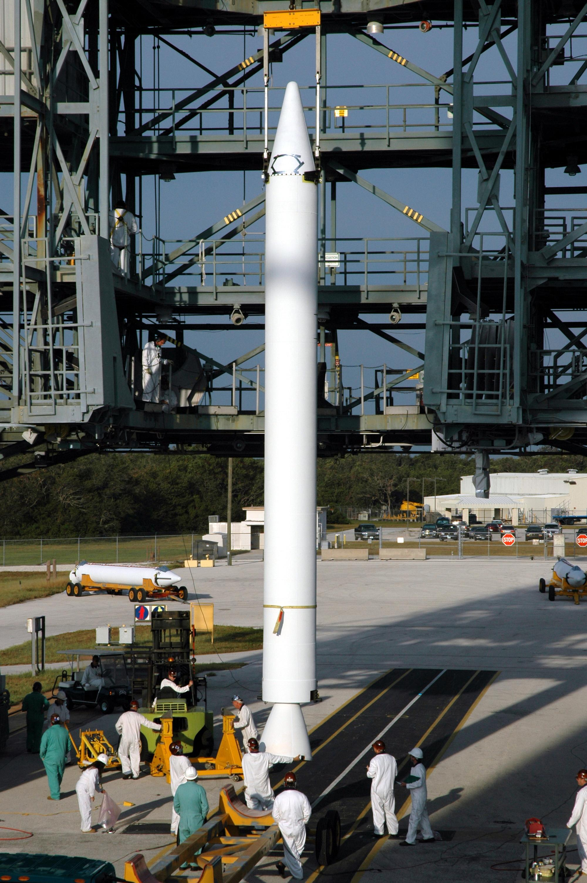 On Launch Pad 17-B, Cape Canaveral Air Force Station, Fla., workers prepare a Solid Rocket Booster (SRB) to be lifted up the mobile service tower and attached to the Boeing Delta II launch vehicle for launch of the Deep Impact spacecraft. A NASA Discovery mission, Deep Impact will probe beneath the surface of Comet Tempel 1 on July 4, 2005, when the comet is 83 million miles from Earth, and reveal the secrets of its interior. After releasing a 3- by 3-foot projectile to crash onto the surface, Deep Impact’s flyby spacecraft will collect pictures and data of how the crater forms, measuring the crater’s depth and diameter, as well as the composition of the interior of the crater and any material thrown out, and determining the changes in natural outgassing produced by the impact. It will send the data back to Earth through the antennas of the Deep Space Network. Deep Impact project management is handled by the Jet Propulsion Laboratory in Pasadena, Calif. The spacecraft is scheduled to launch Dec. 30, 2004.